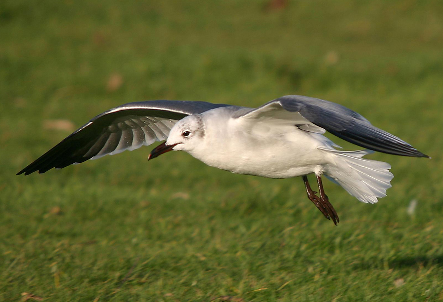 Laughing Gull at Porthmadog, Wales